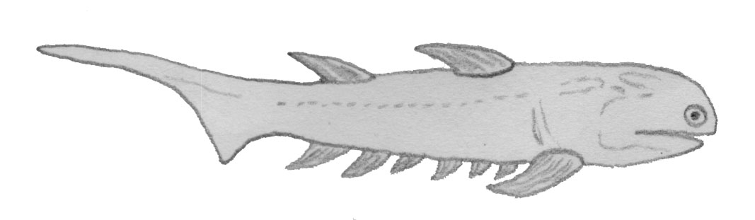 Climatius, an acanthodian